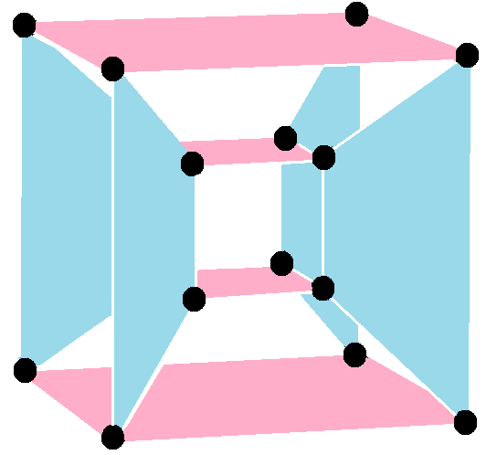 Complex polytope 4{4}2, 16 vertices, 8 4-edges in 2 color sets, and 4-edges filled as squares